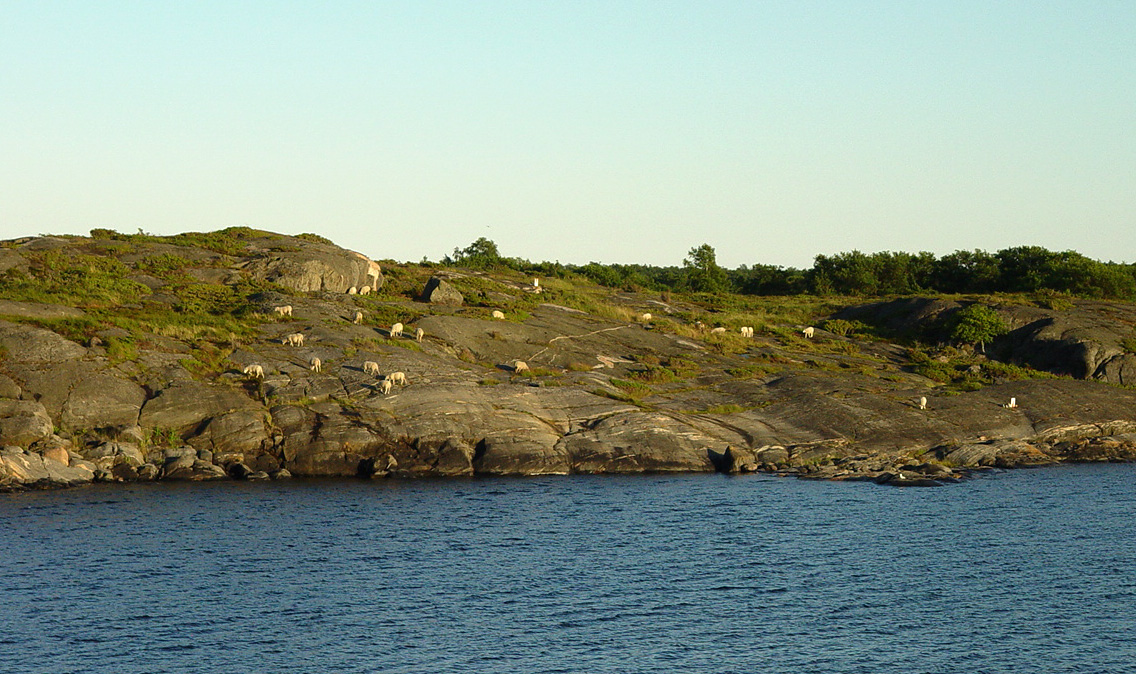 Åland: Ferry route Södra Linjen from Kökar to Galtby